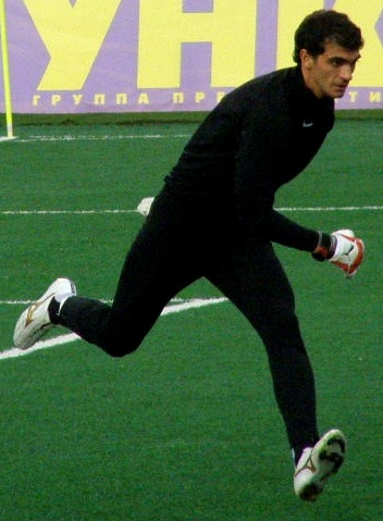 Vladimir Gabulov warming up for FC Amkar